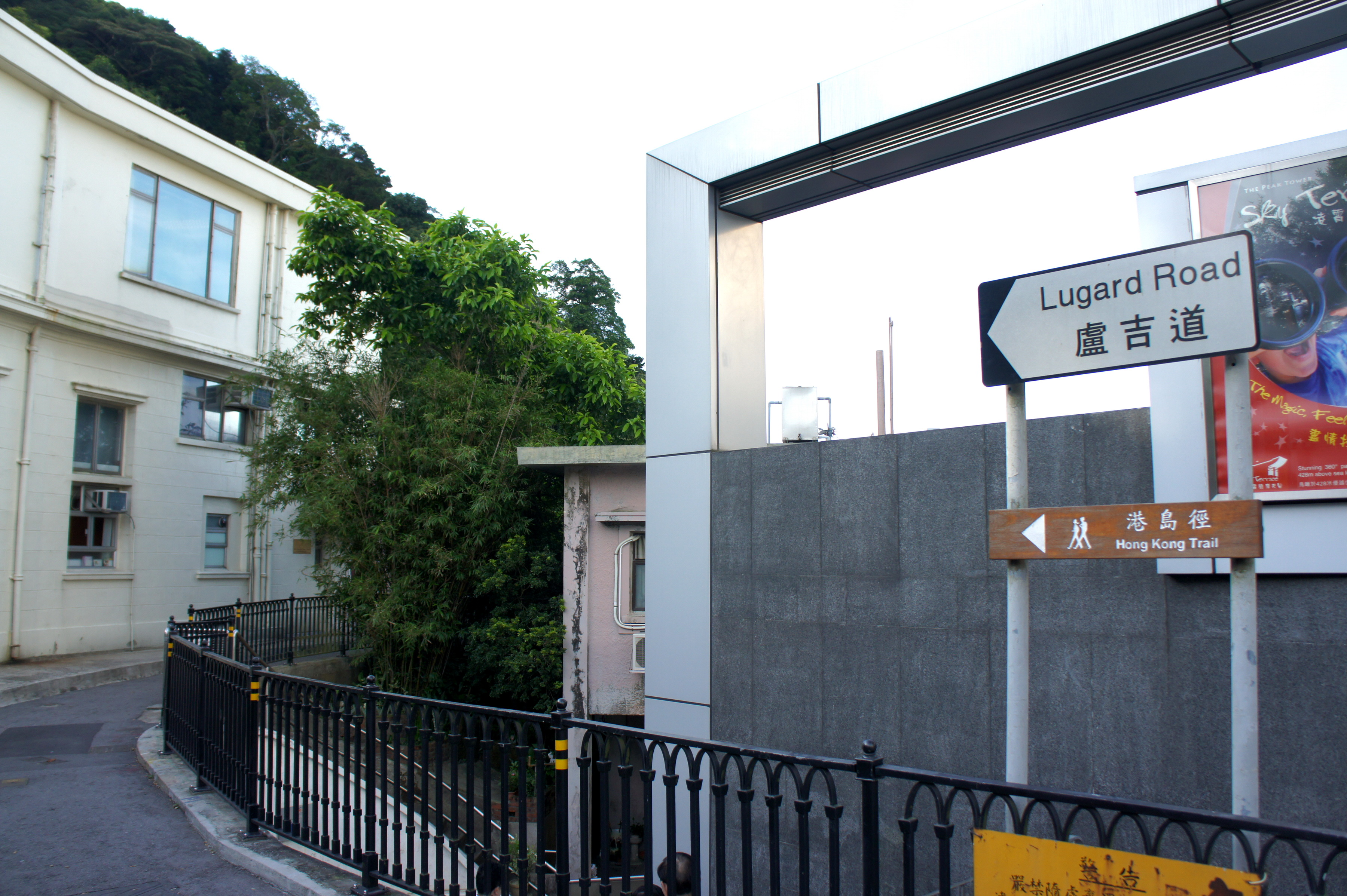 Lugard Road, the Peak, Hong Kong.